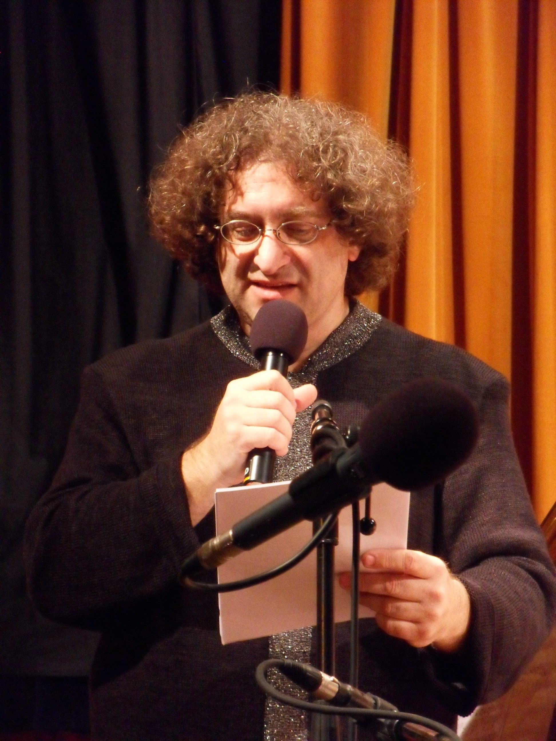 Daniel Forró, czech keyboardist, in Brno, Czech Republic